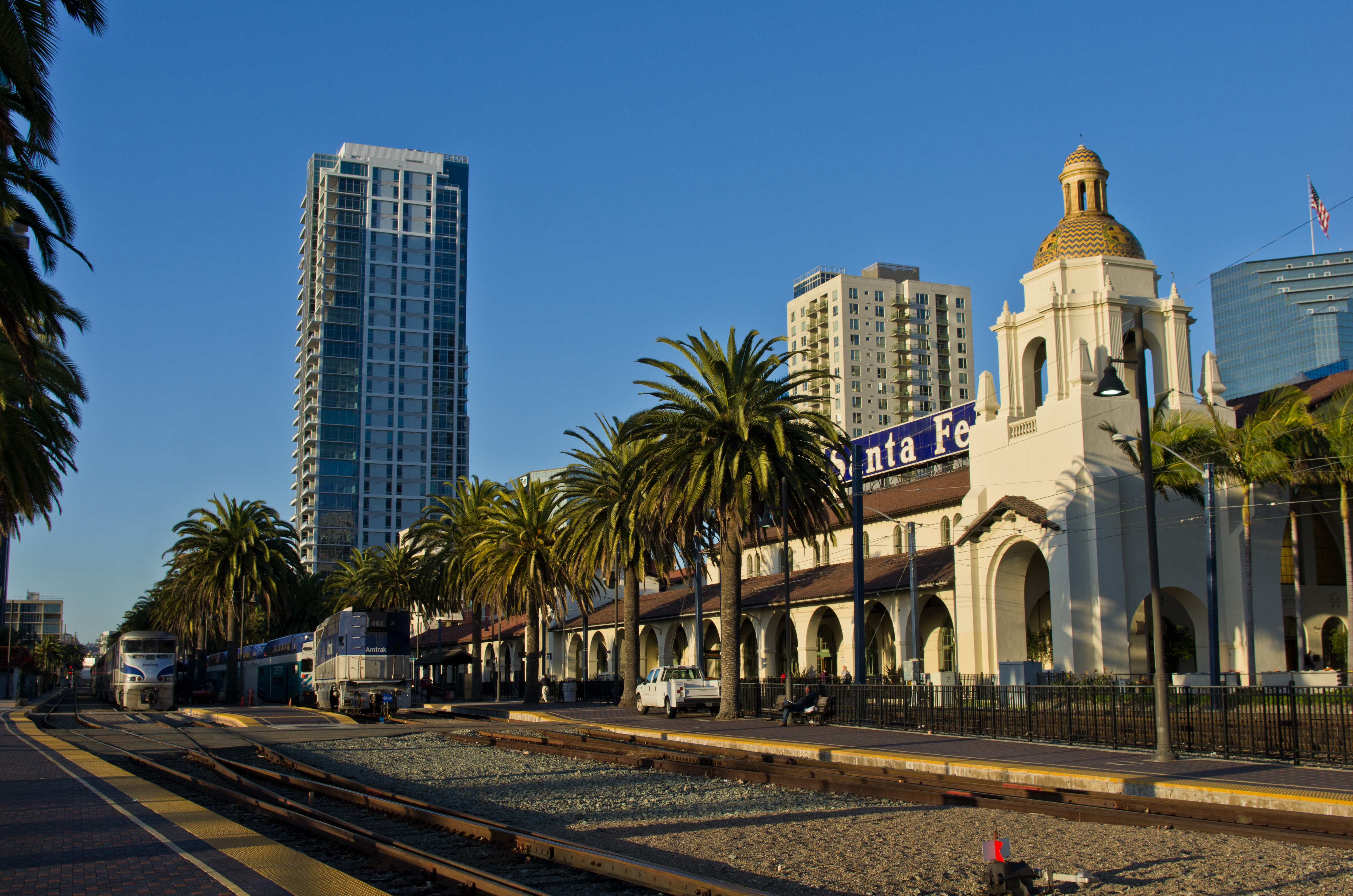 Union Station (San Diego)